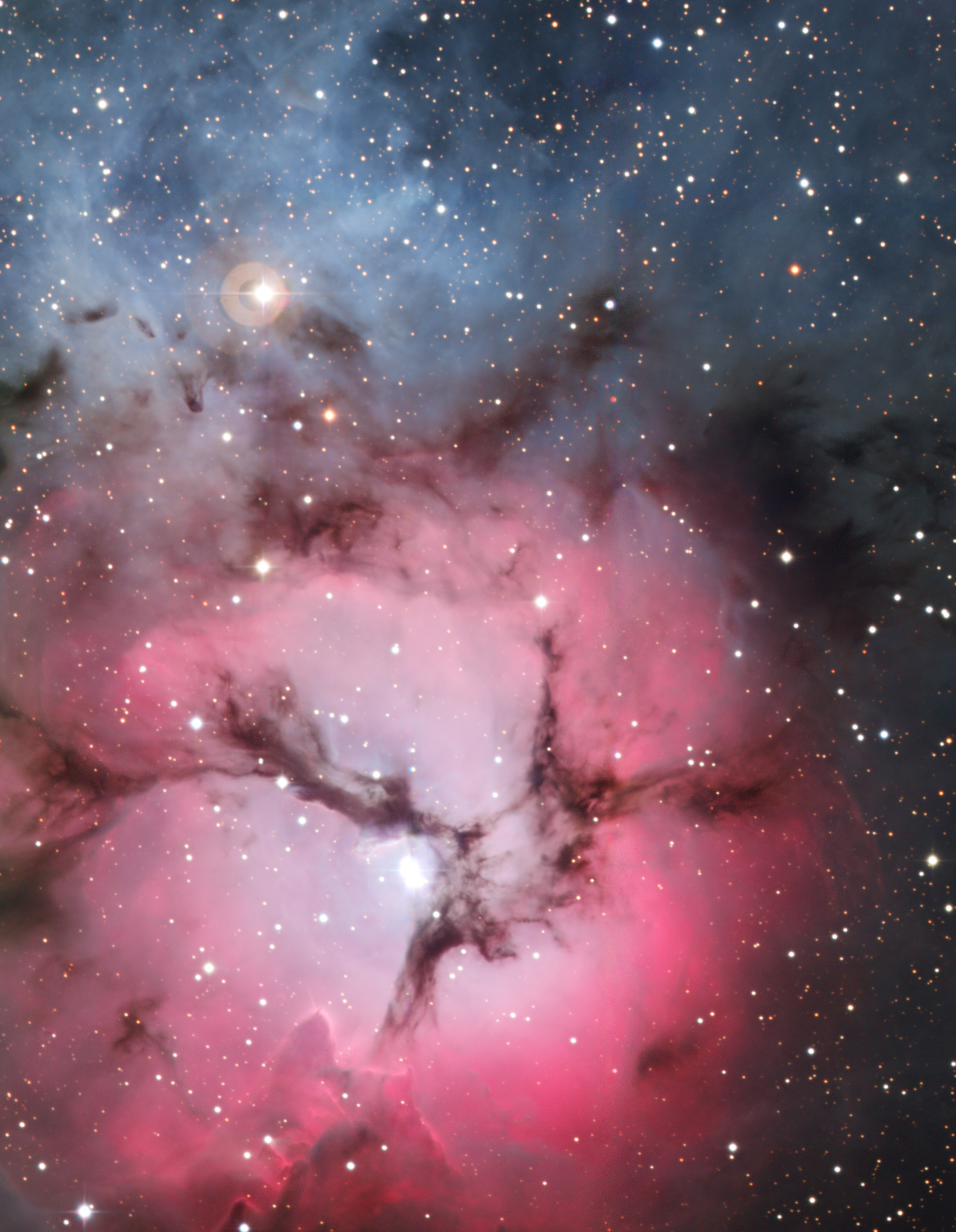 The massive star factory known as the Trifid Nebula was captured in all its glory with the Wide-Field Imager camera attached to the MPG/ESO 2.2-metre telescope at ESO’s La Silla Observatory in northern Chile. So named for the dark dust bands that trisect its glowing heart, the Trifid Nebula is a rare combination of three nebulae types that reveal the fury of freshly formed stars and point to more star birth in the future. The field of view of the image is approximately 13 x 17 arcminutes.